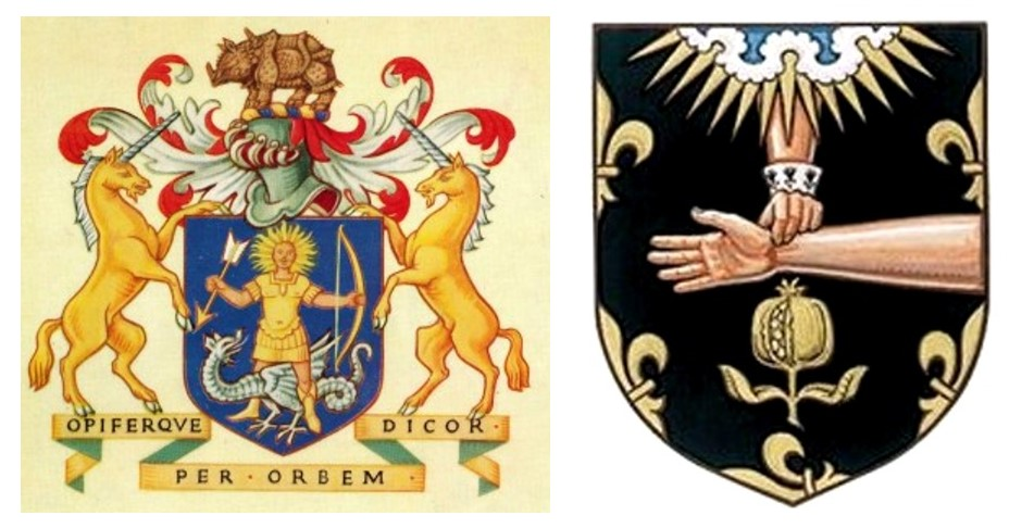 Arms of the Society of Apothecaries and the Royal College of Physicians based on Society of Apothecaries arms dating from 1617 (left) and RCP arms from 1546.